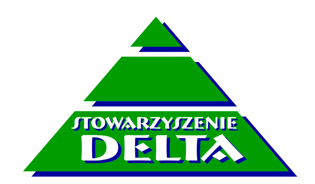 Logo Stowarzyszenia Delta